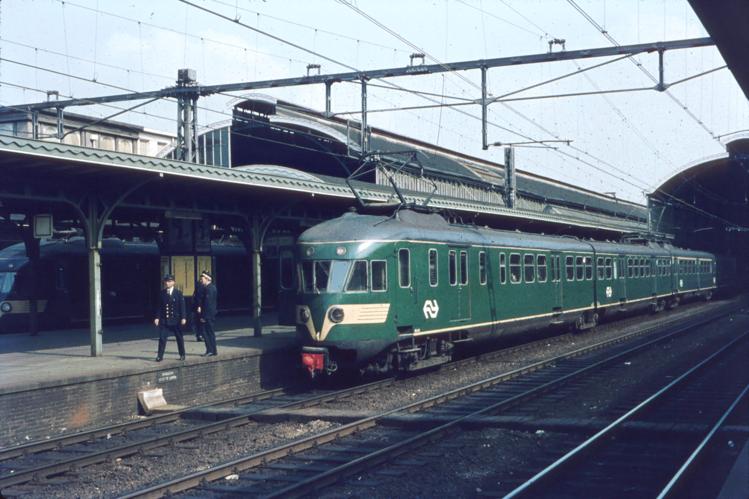 Mat '46 train at Utrecht CS 25-5-1969